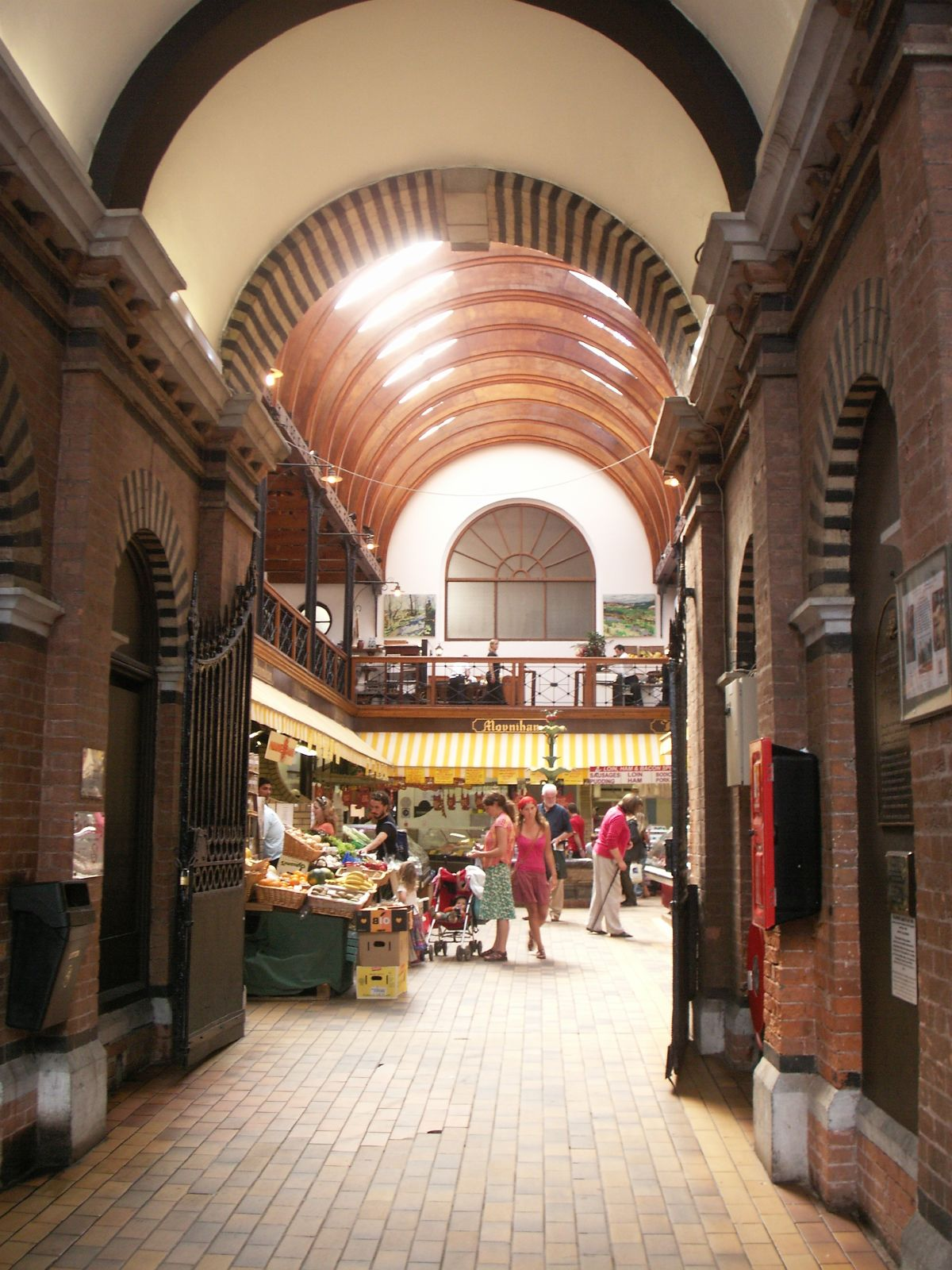 The English Market, Cork